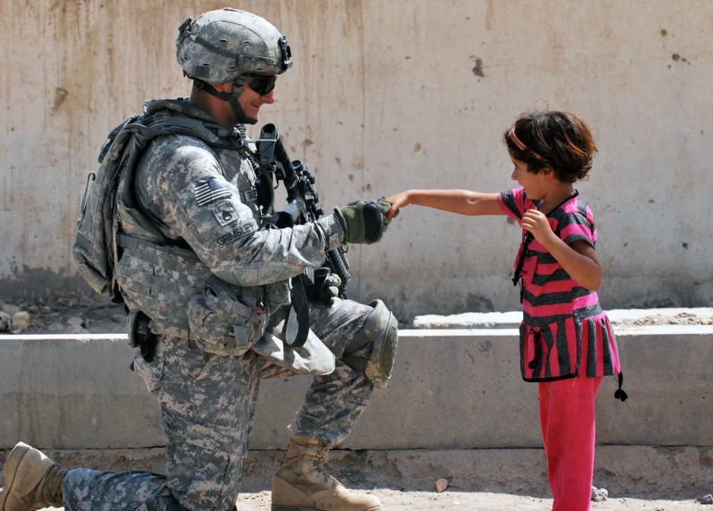 Staff Sgt. Richard Grimsley, of Charleston, S.C., greets a young Iraqi girl during a checkpoint patrol, Aug. 19, 2009, in the Ma'dain region, located outside eastern Baghdad. Grimsley is a squad leader assigned to Troop A, 5th Squadron, 73rd Cavalry Regiment, 3rd Brigade Combat Team, 82nd Airborne Division, Multi-National Division – Baghdad. Prior to moving to the outskirts of eastern Baghdad, Troop A operated in the heart of Baghdad's Rusafa District. Photo by Pvt. Jared N. Gehmann See more at